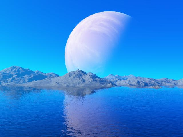 My Visualization Of A Habitable Moon Orbiting HD 28185 b (min mass ~5.7 MJ).